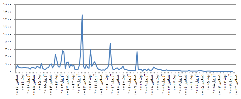 New articles per day in Persian Wikipedia (Dec 2003 - Dec 2016)